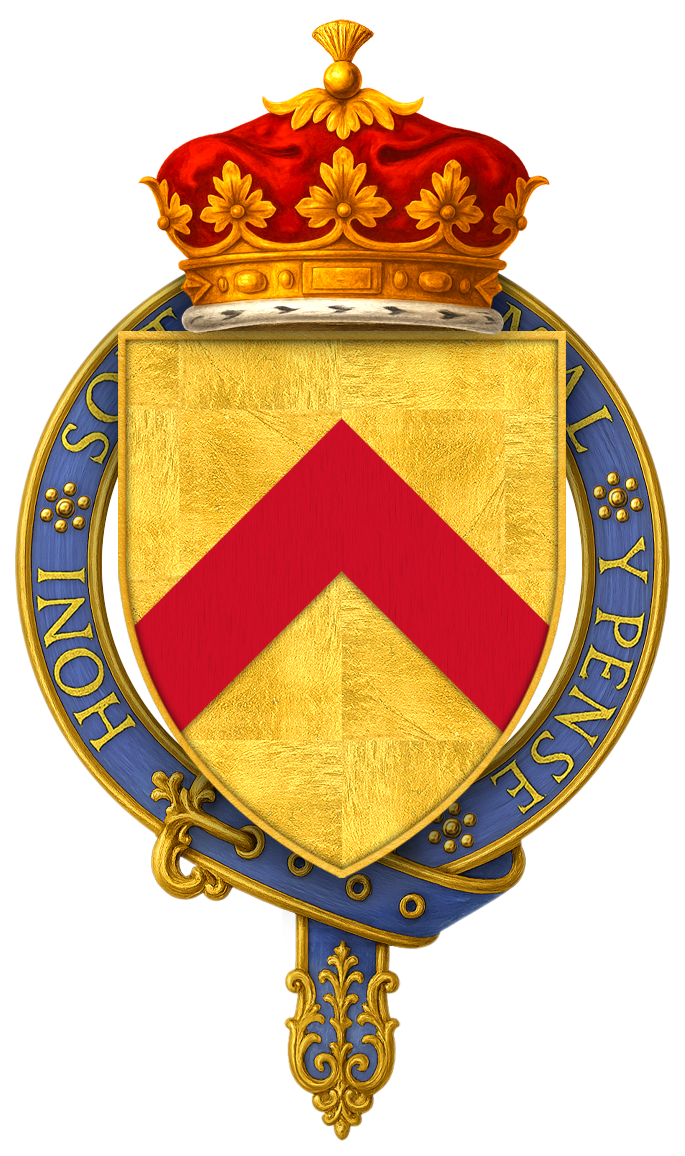 Sir Humphrey Stafford, 1st Duke of Buckingham, KG HOPE, W. H. St. John, The Stall Plates of the Knights of the Order of the Garter 1348 – 1485: A Series of Ninety Full-Sized Coloured Facsimiles with Descriptive Notes and Historical Introductions, Westminster: Archibald Constable and Company LTD, 1901. “ Sir Humphrey Stafford, Earl of Stafford, Earl and Duke of Buckingham, K.G. 1429-1460...the shield of arms, gold a chevron gules... ” The Stall plate remains intact within the seventeenth stall, on the south side of the chapel.